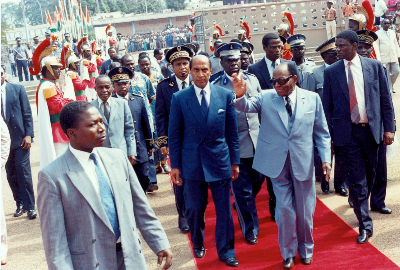 L'ambassadeur avec le President Houphouet